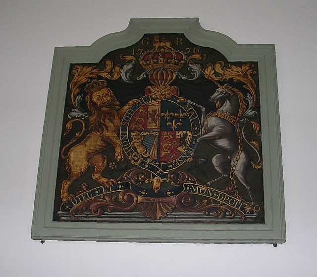 Royal Arms - 1776 - St James' Church